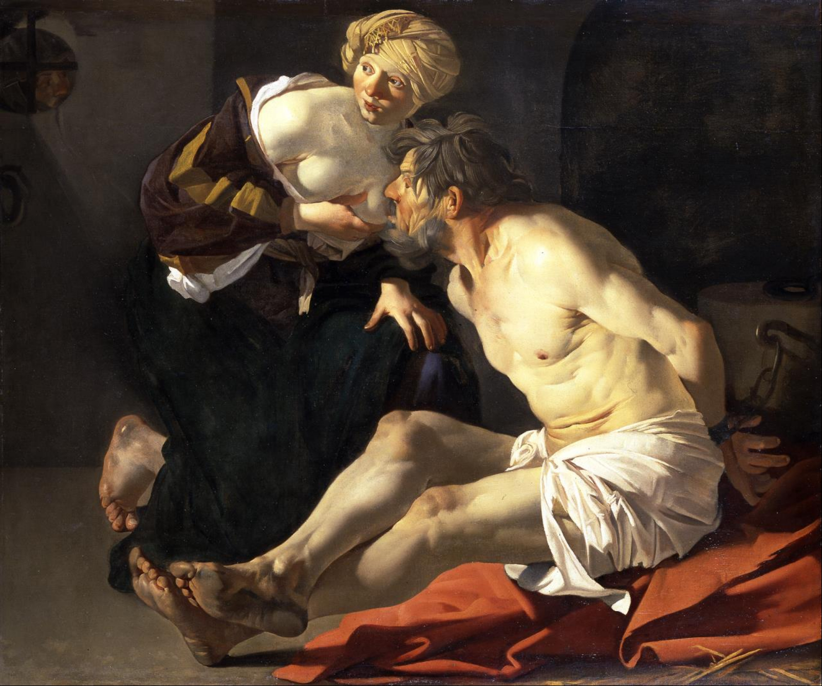 Caridad romana, Cimon y Pero, óleo sobre lienzo, 127,6 x 151,1 cm, York Museums Trust; Supplied by The Public Catalogue Foundation